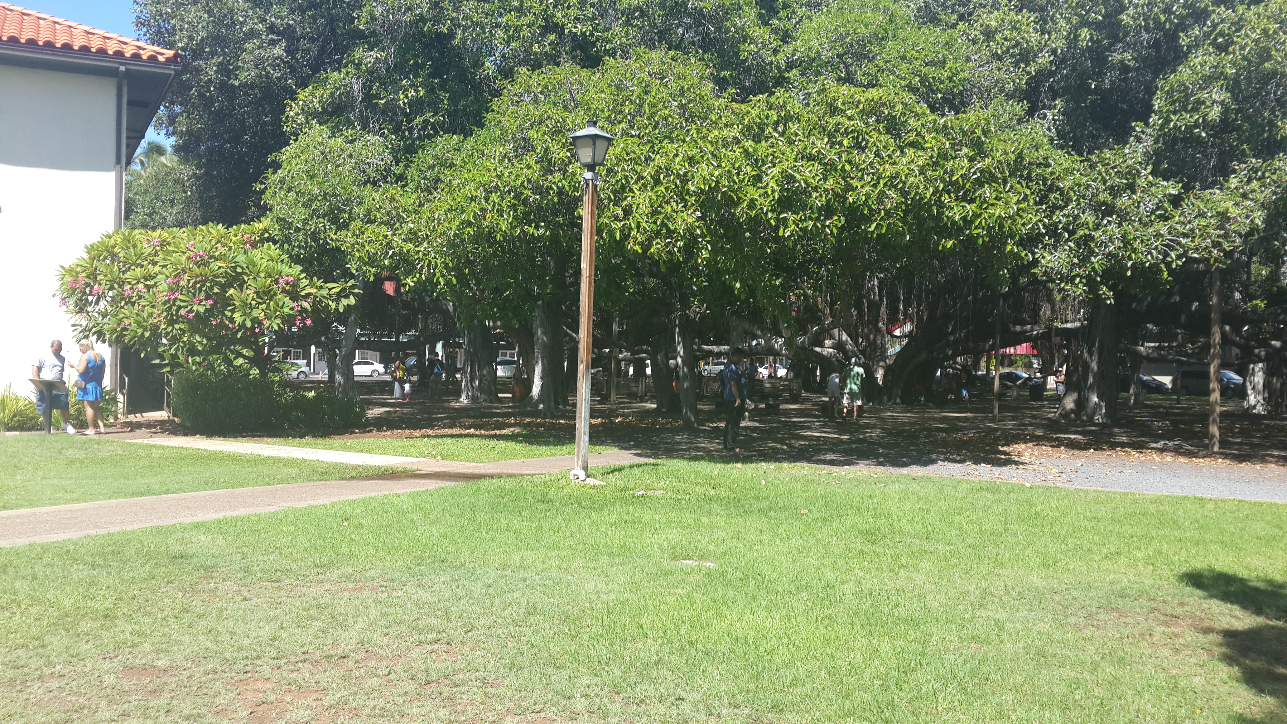 View of canopy of the Banyan tree